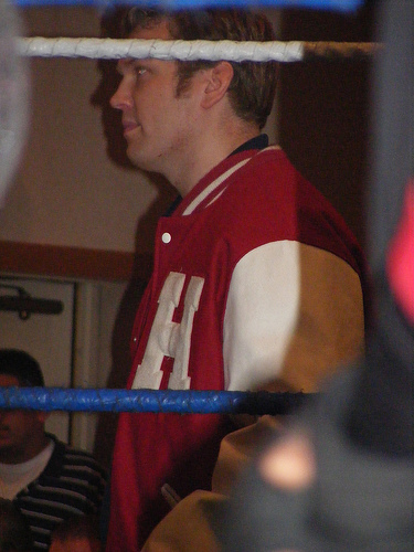 Chris Nowinski at Walter Killer Kowalski Memorial Show Malden, MA on October 26, 2008